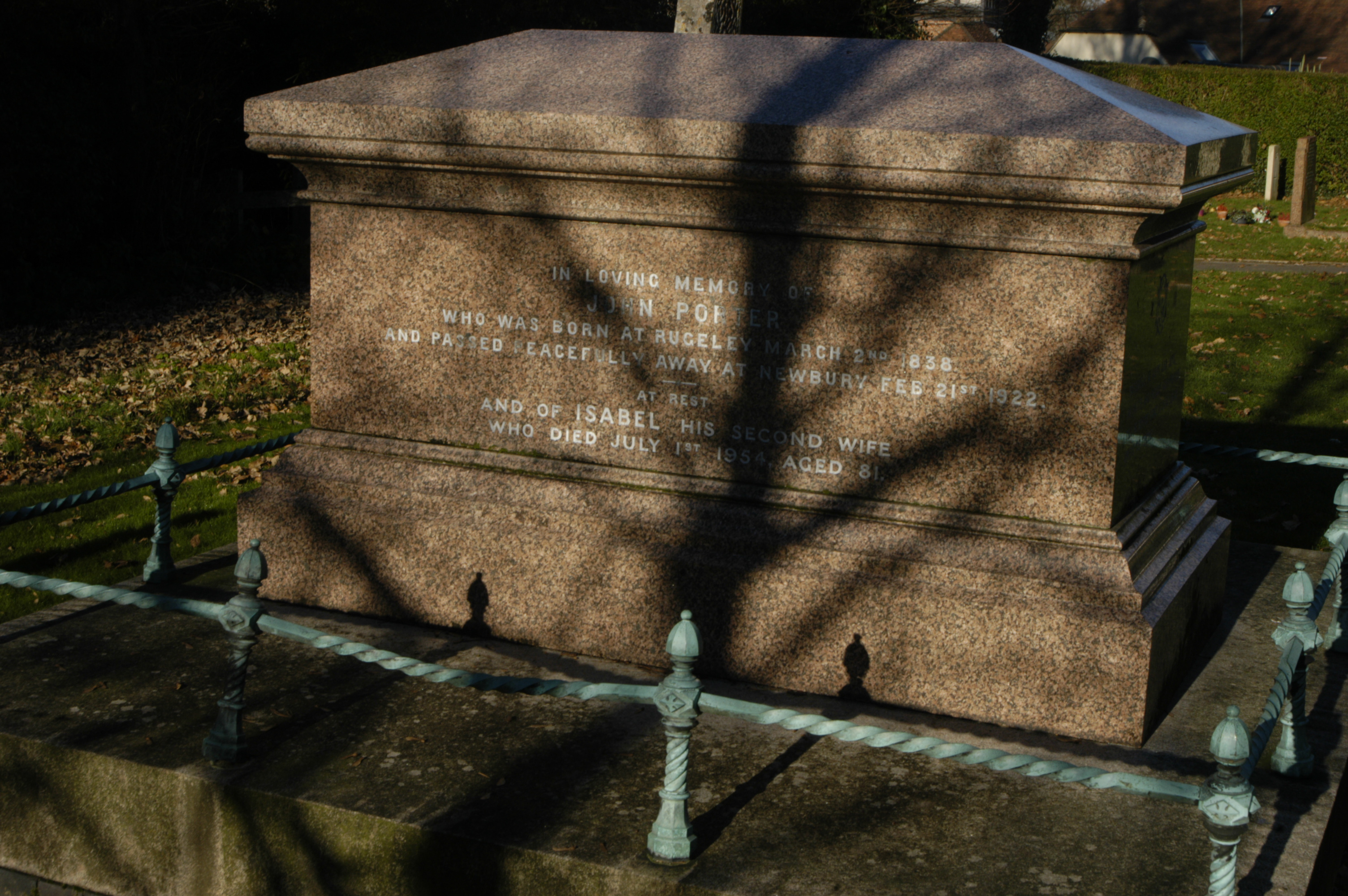 Tomb of John Porter (1838–1922) and his wives in churchyard of St. Mary's, Kingsclere, Hampshire, UK.